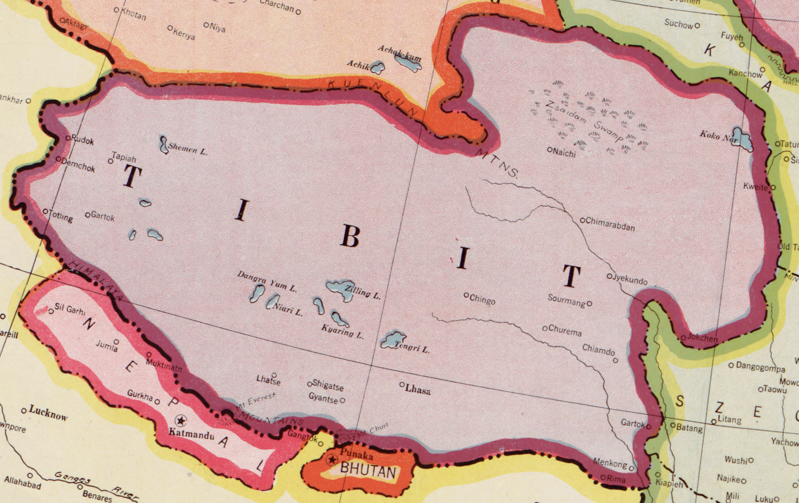 Map featuring countries of the Far East.